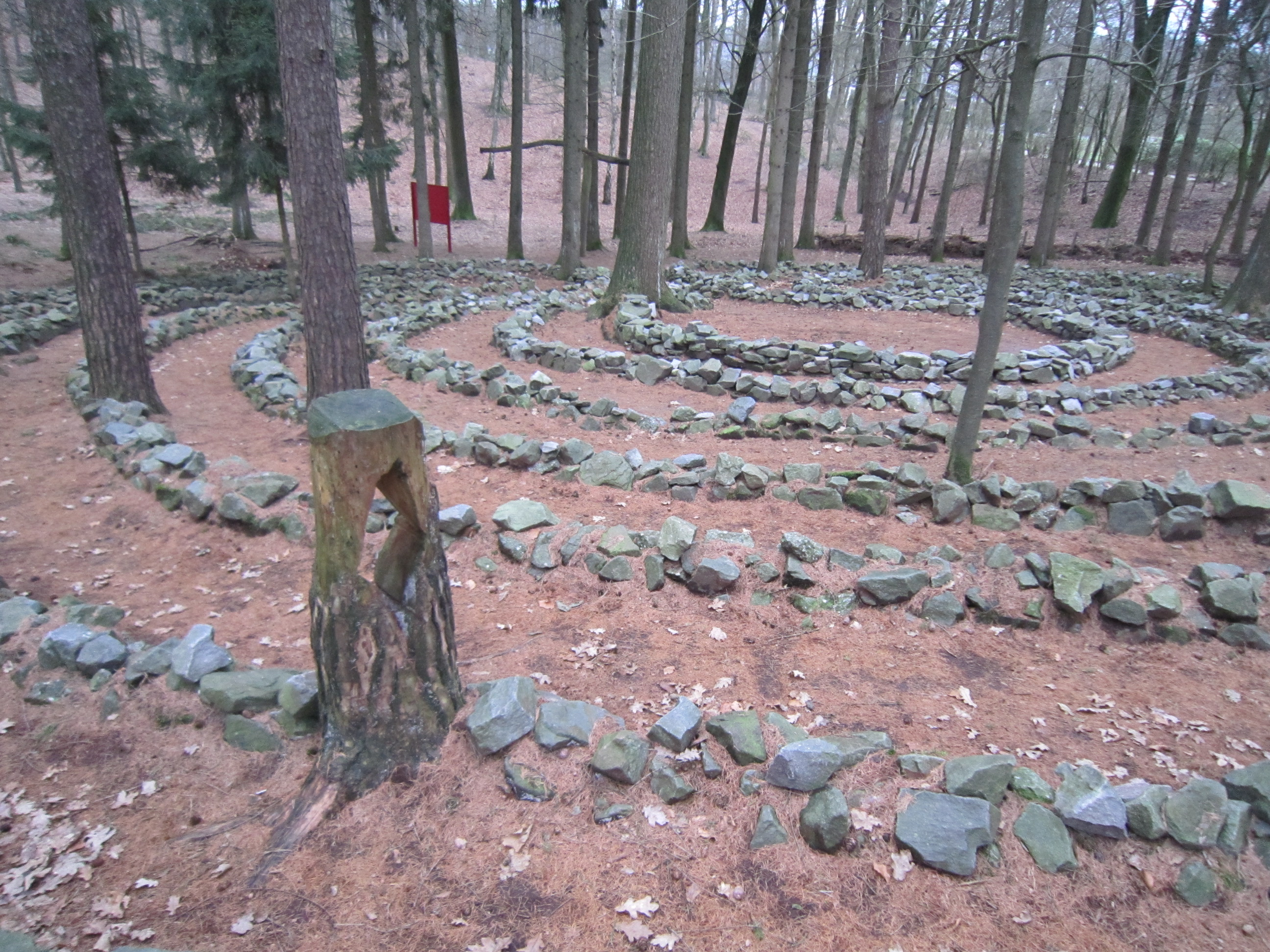 Forest labyrinth near the Priorate St. Benedict in Damme (Dümmer)